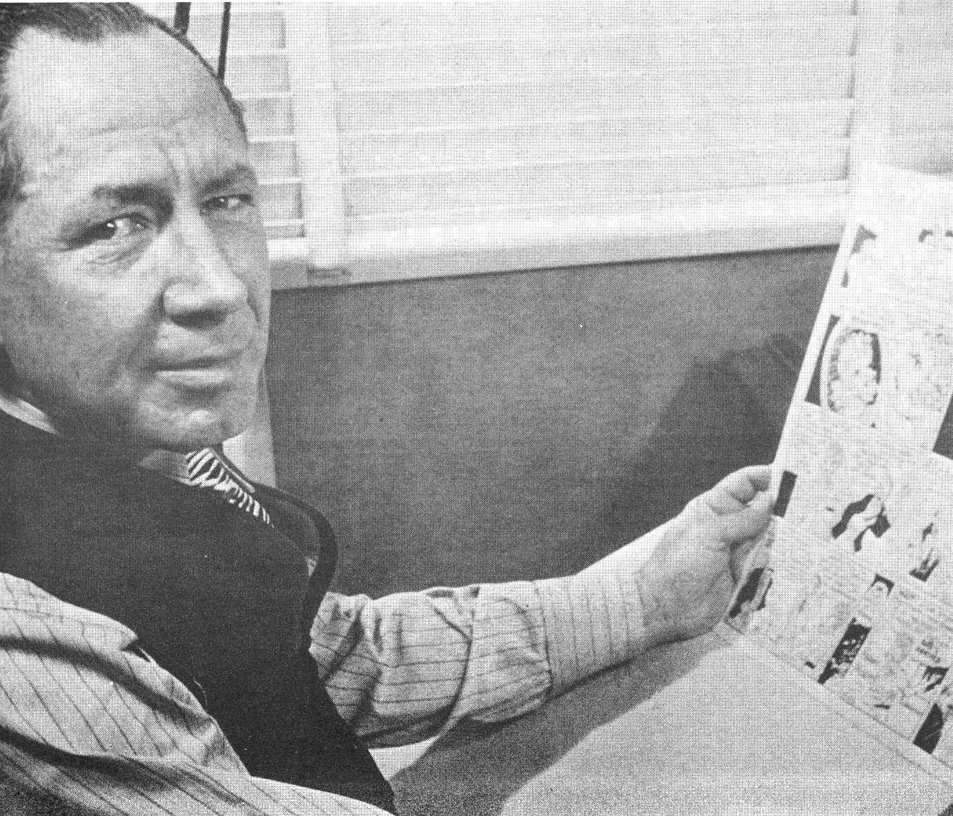 Cartoonist Jimmy Murphy holds an original of Toots And Casper.